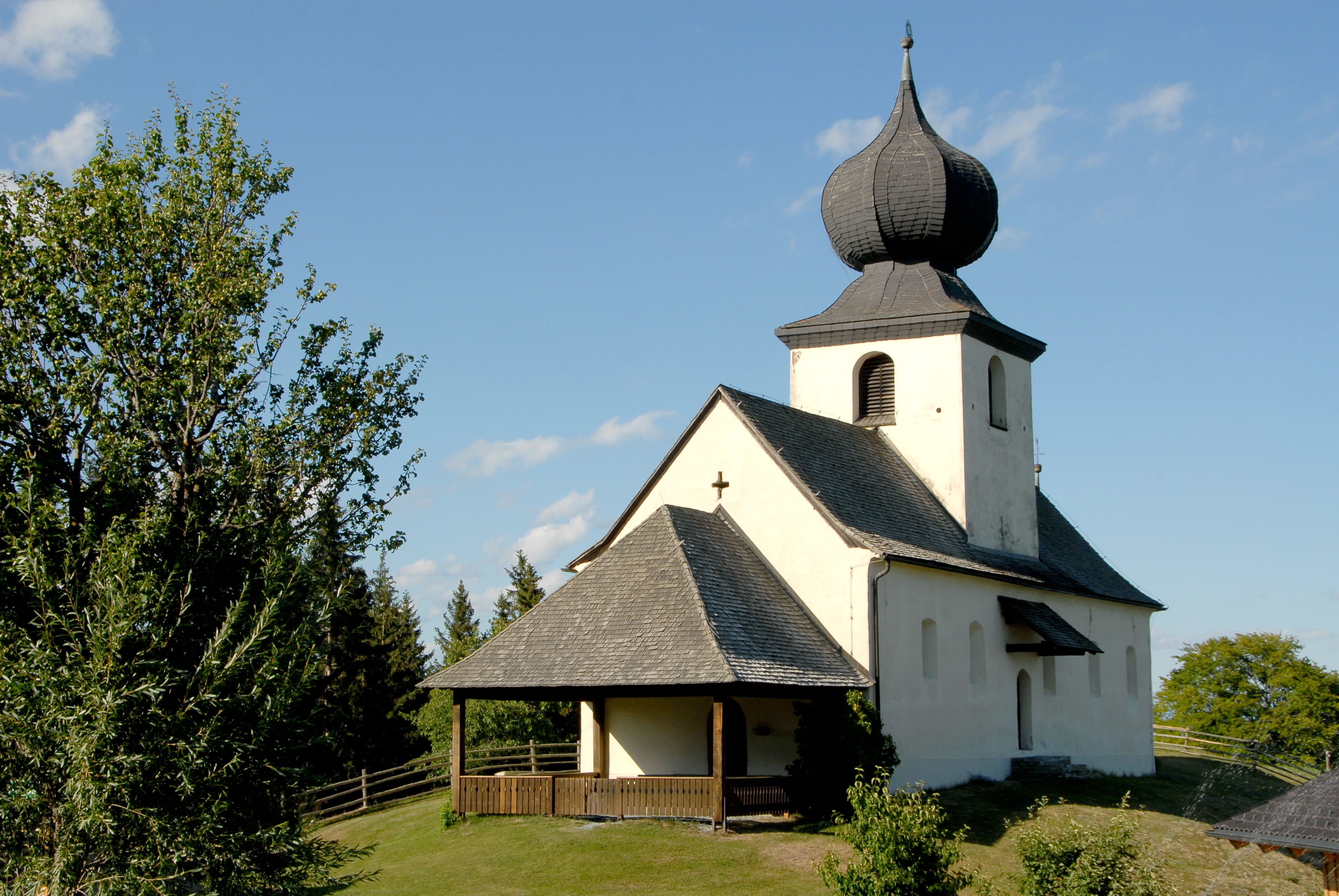 Subsidiary church Saint Paul, municipality Sankt Urban (Kärnten), district Feldkirchen, Carinthia, Austria, EU